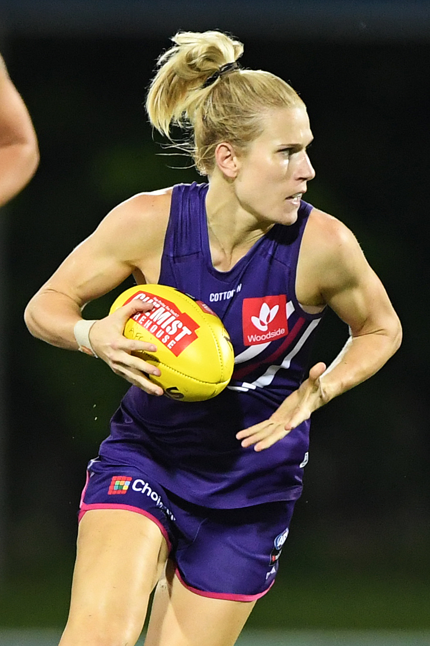 Dana Hooker of Fremantle during the 2019 AFL Women's practice match between the Adelaide Football Club and Fremantle Football Club at TIO Stadium on January 19, 2019 in Darwin Australia.